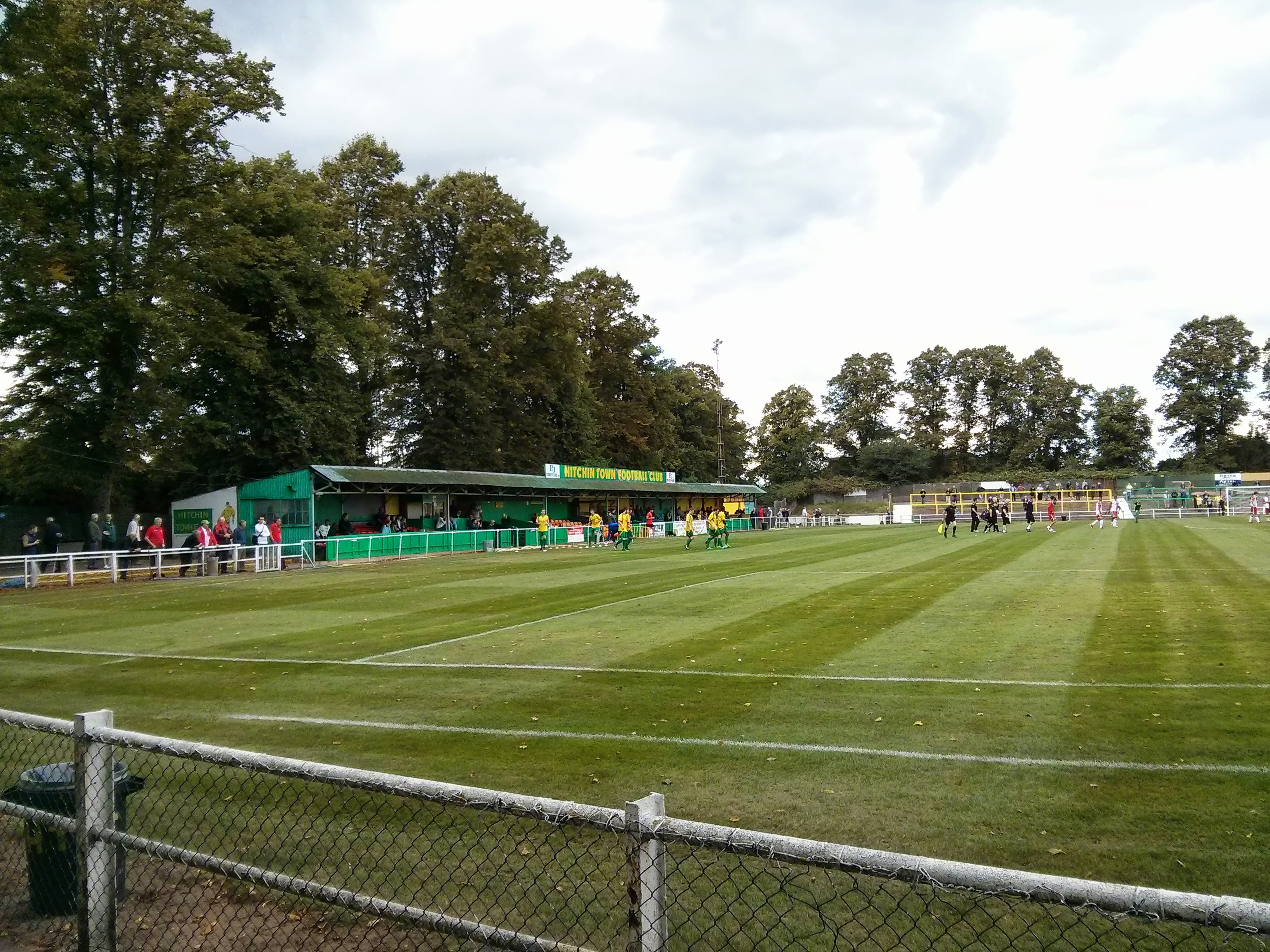 The main stand at Top Field, home of Hitchin Town FC.